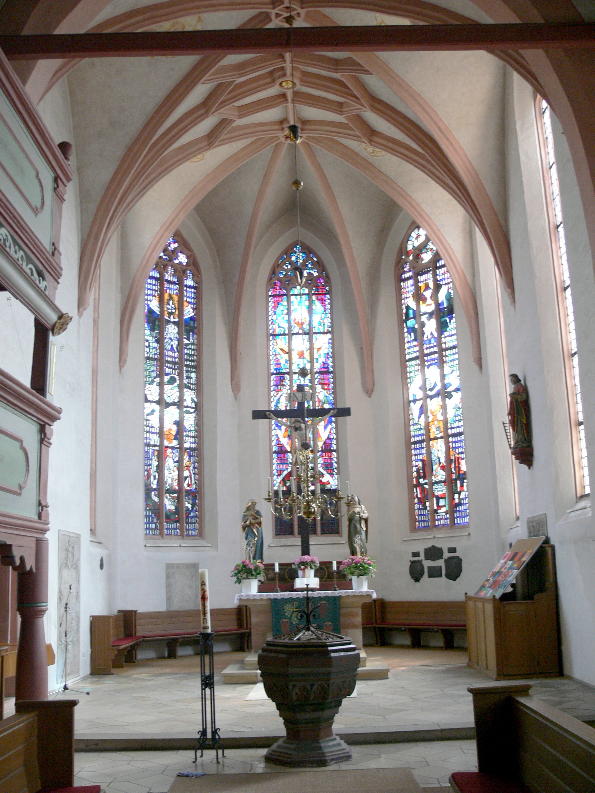 Roßtal - St.Lawrence church: Presbytery ( 15th century )